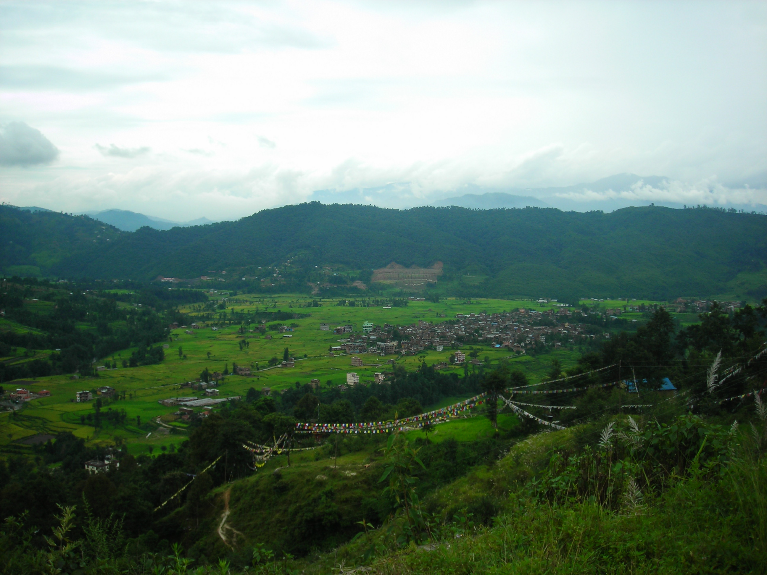 Saankhu an ancient city near Kathmandu, Nepal